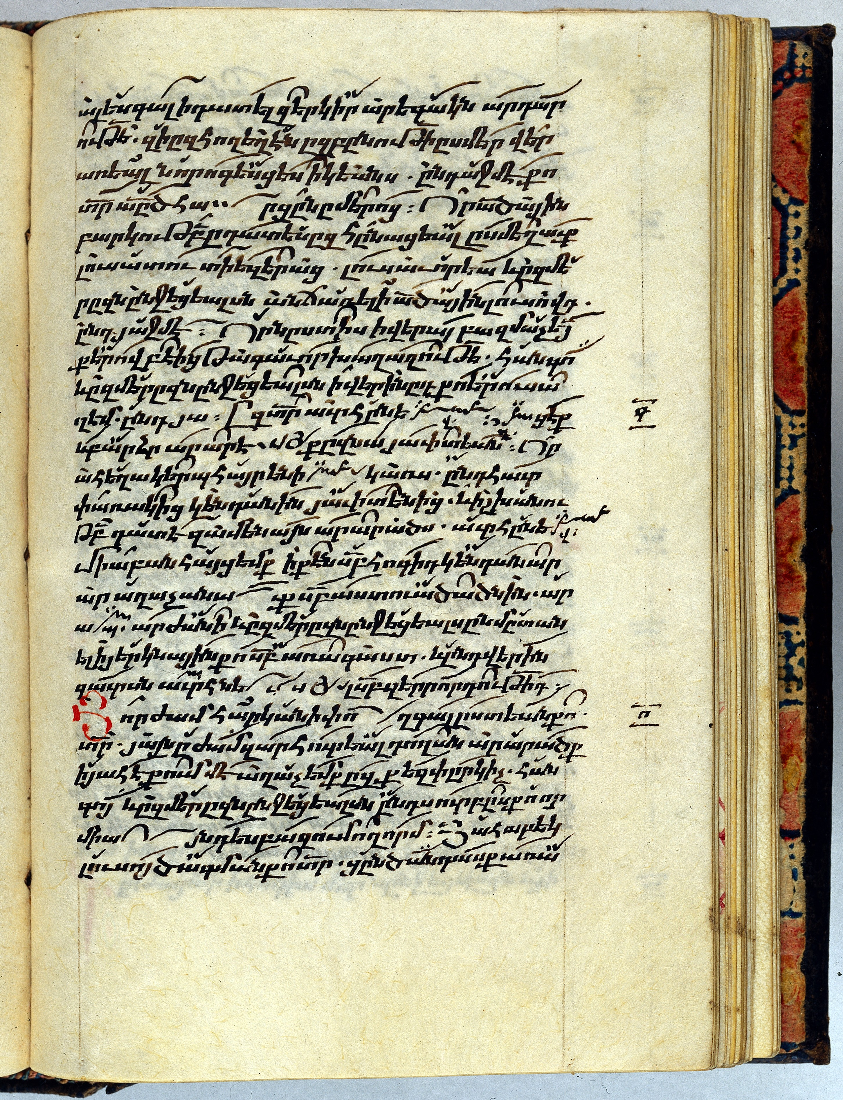 Hymnal, 1679, Hymn with the khaz (neume) notation signs above the text Asian Collection Keywords: ms armenian 14